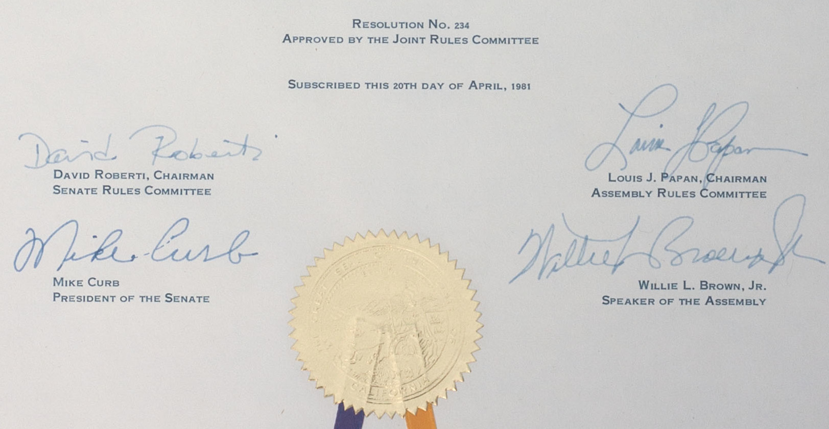 Joint Resolution 234 of the California State Legislature, 1981, "Relative to commending the Palo Alto High School Academic Decathlon Team" on their victory in the 1980 California Academic Decathlon. Sponsored by state senator Marz Garcia and assemblyman Byron Sher, and signed by senators David Roberti and Mike Curb and assemblymen Louis J. Papan and Willie L. Brown, Jr.